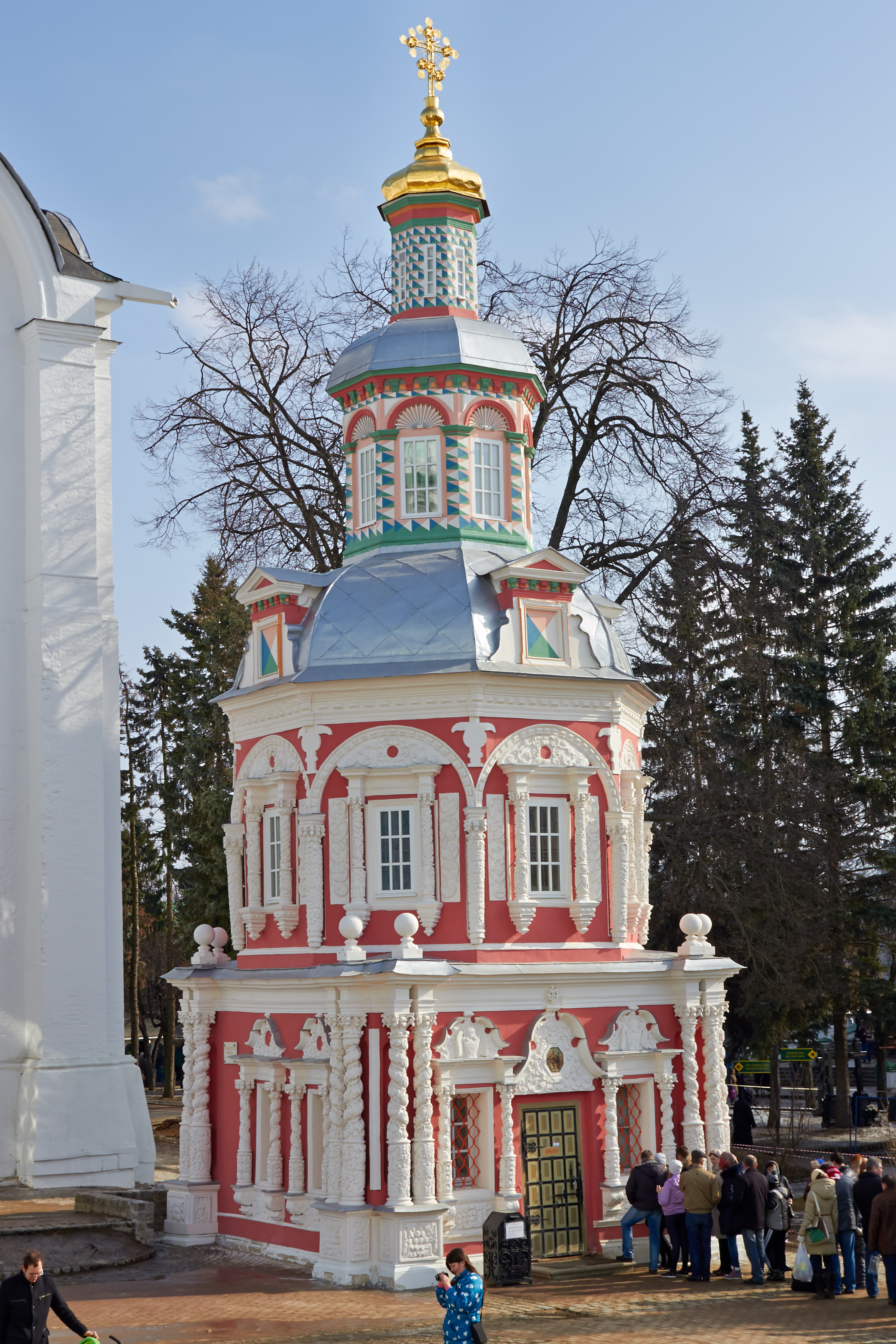 Trinity Lavra of St. Sergius